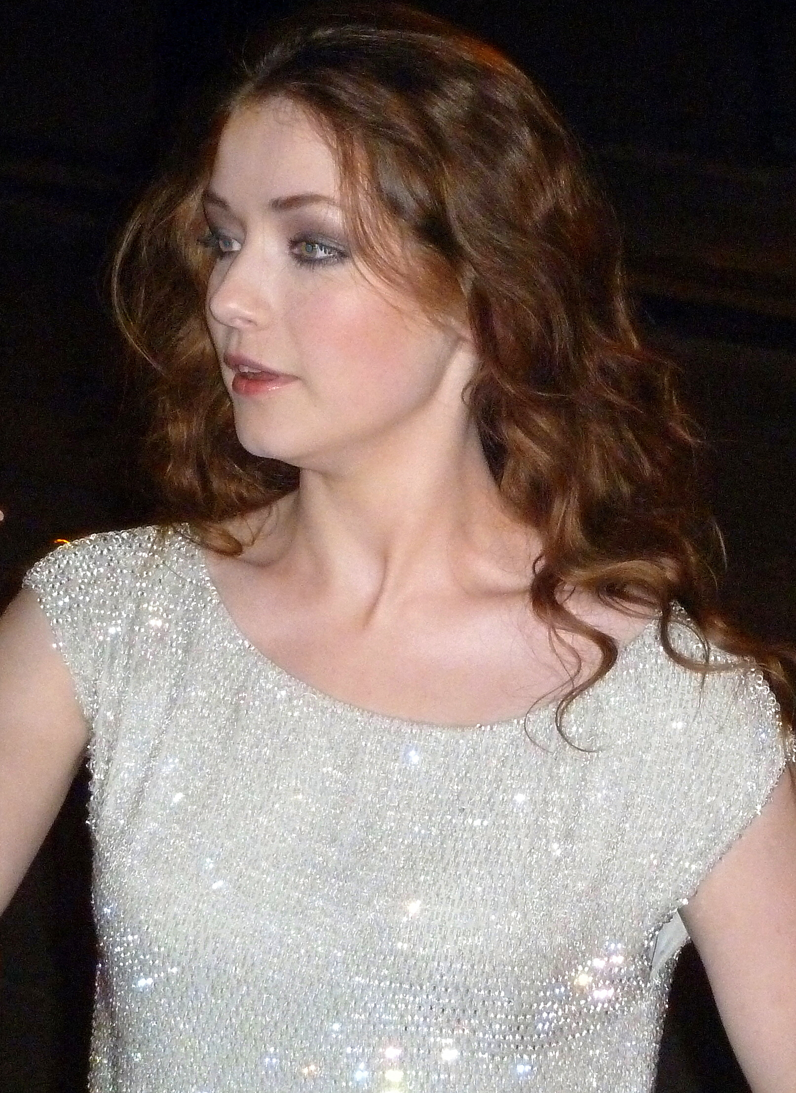 Sarah Bolger at the Toronto International Film Festival 2011.